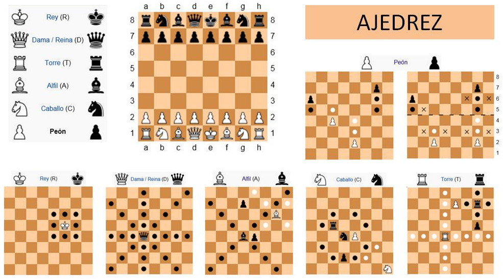 Chess movements. To print in A4.